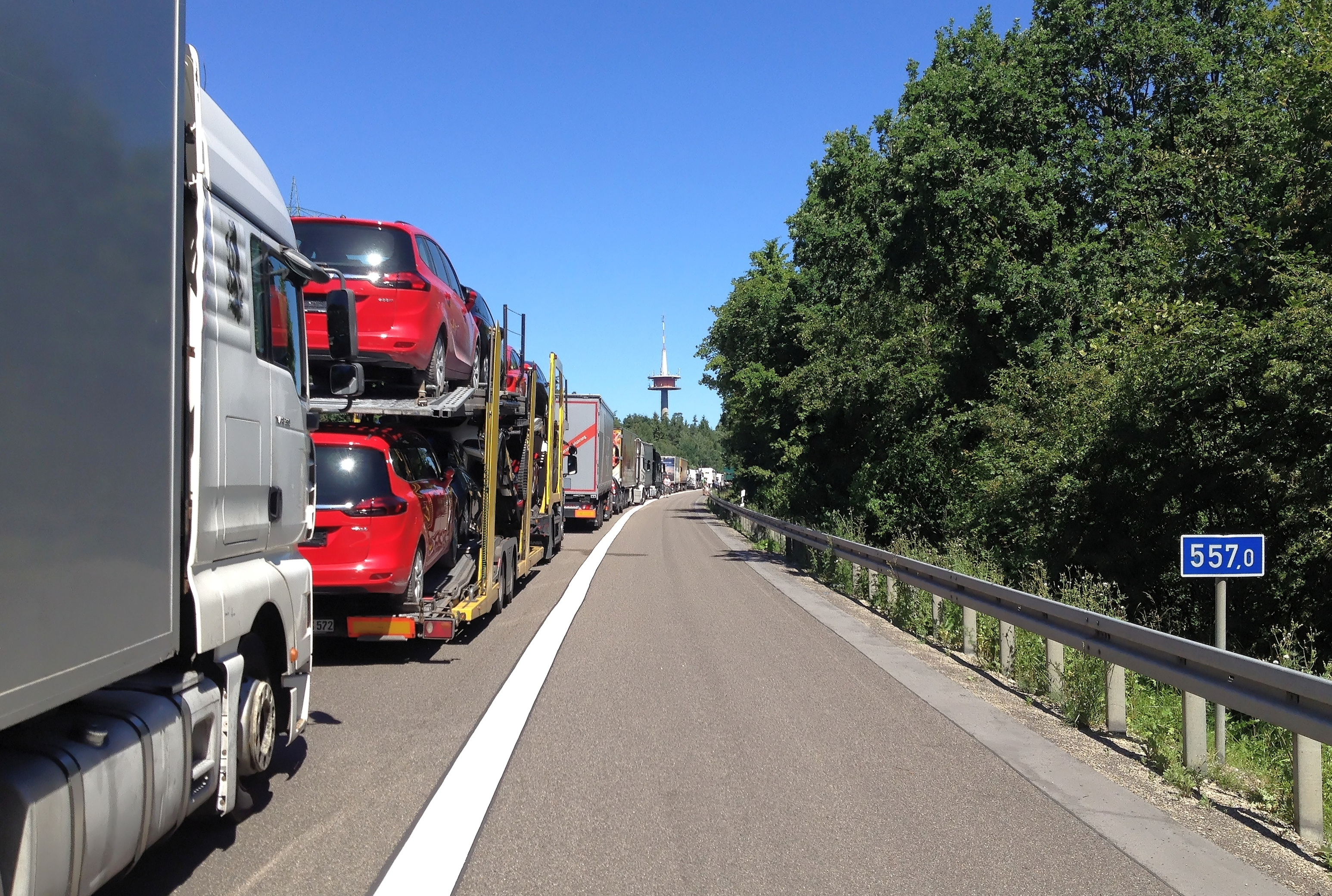 Traffic congestion on the German Autobahn A7 near Fulda